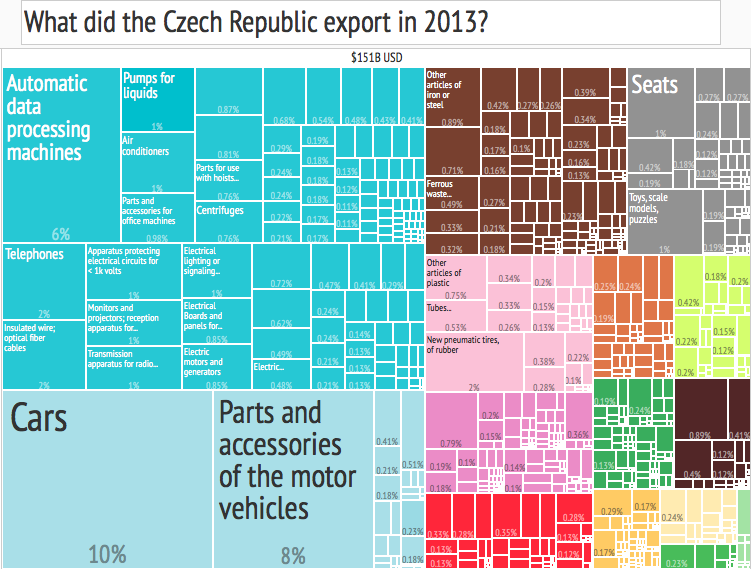 TTreemap of exports from the Czech Republic in 2013, by product type.